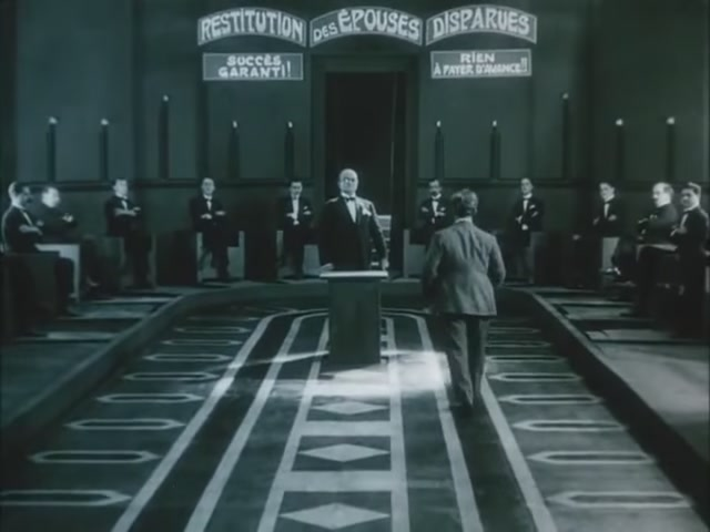 Image extracted from Le Brasier ardent, 1923 silent movie of France